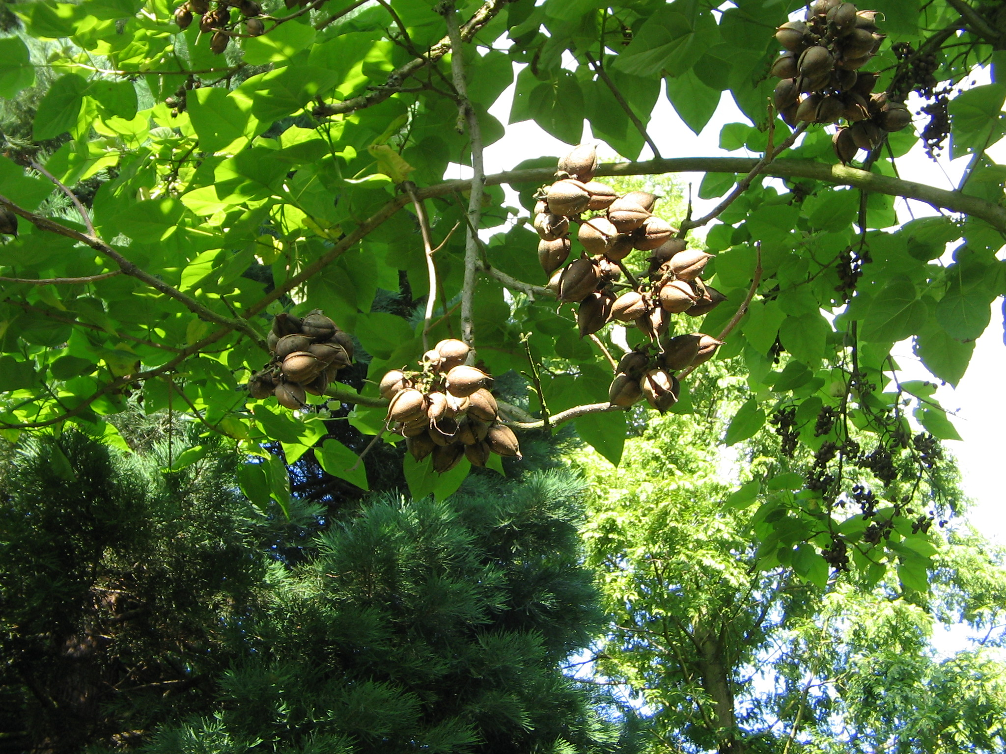 Paulownia tomentosa - fruits of previous year